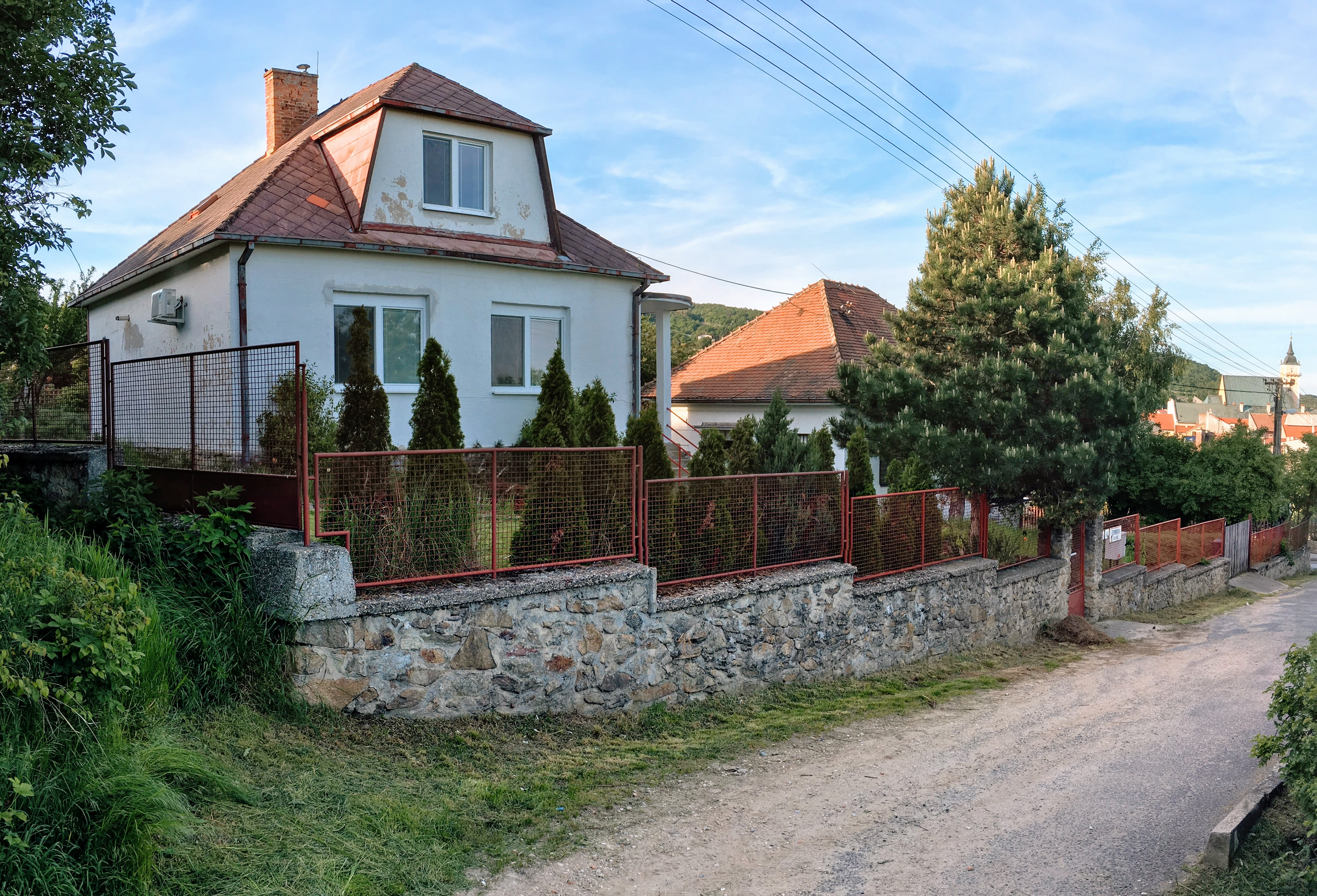 House of Peter Jilemnicky in Svätý Jur